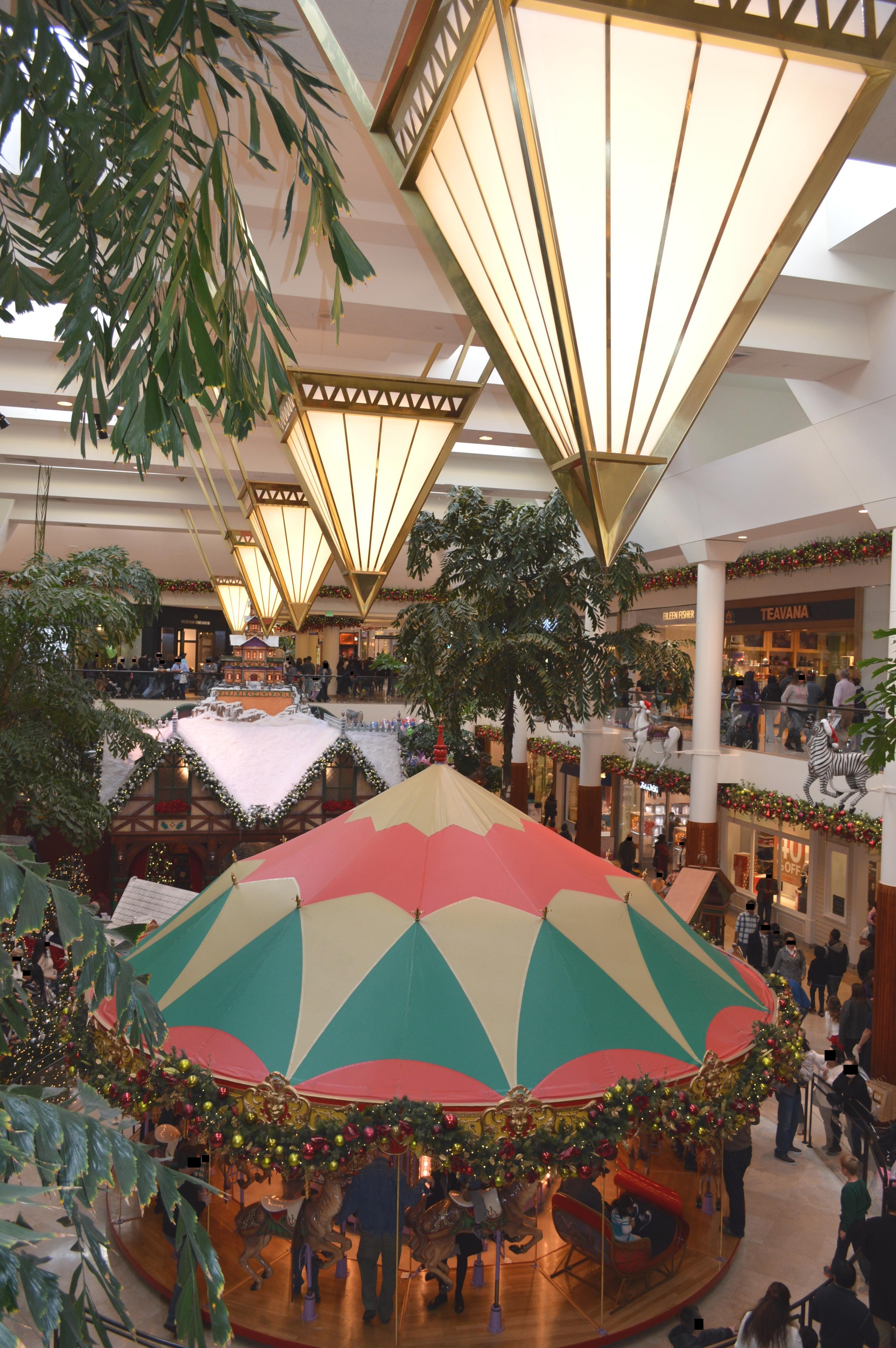 Pyramid-shaped chandeliers over Carousel Court of South Coast Plaza, with Santa's Village in the background for the 2013 holiday season - Costa Mesa, California, U.S.A.